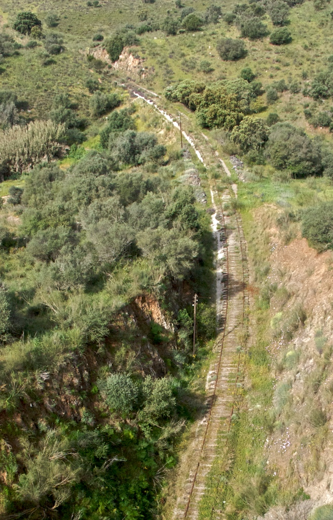 closed Railway line of Ramal de Moura